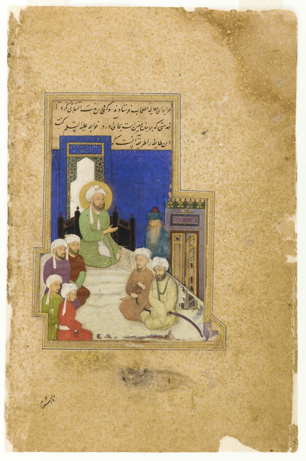 'Abid(attributed) The Prophet and the Persian physician. Folio from a Gulistan (Rosegarden) by Sa'di. Text dated 1468, paintings repainted ca. 1645, Freer and Sackler Gallery, Washington